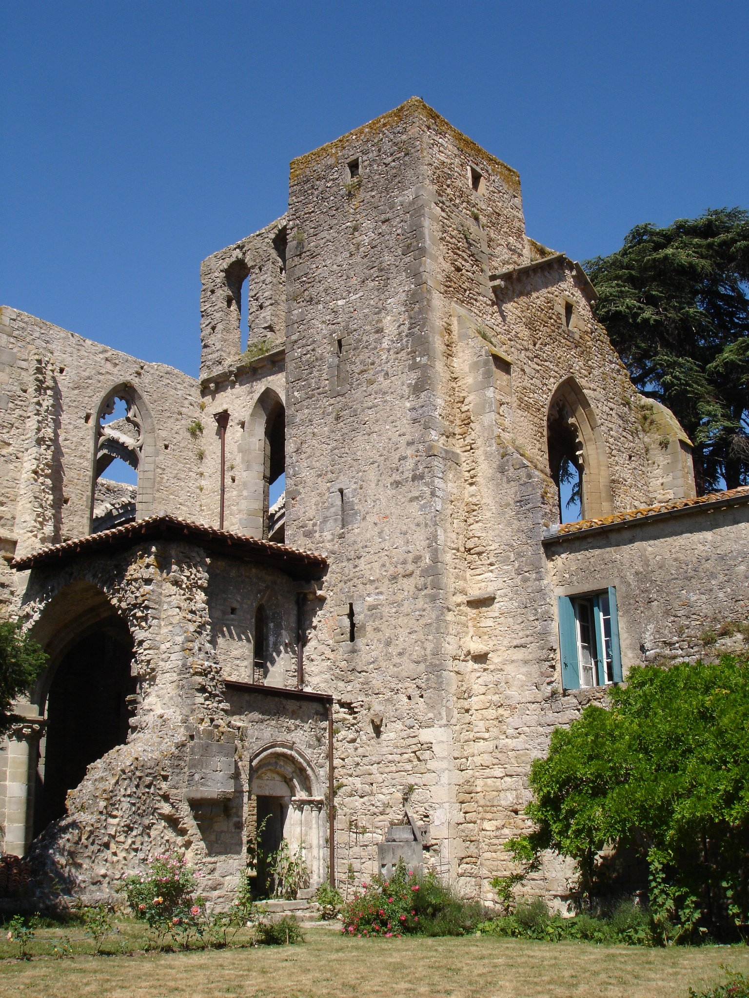 France, Aude (11), Villelongue Abbey